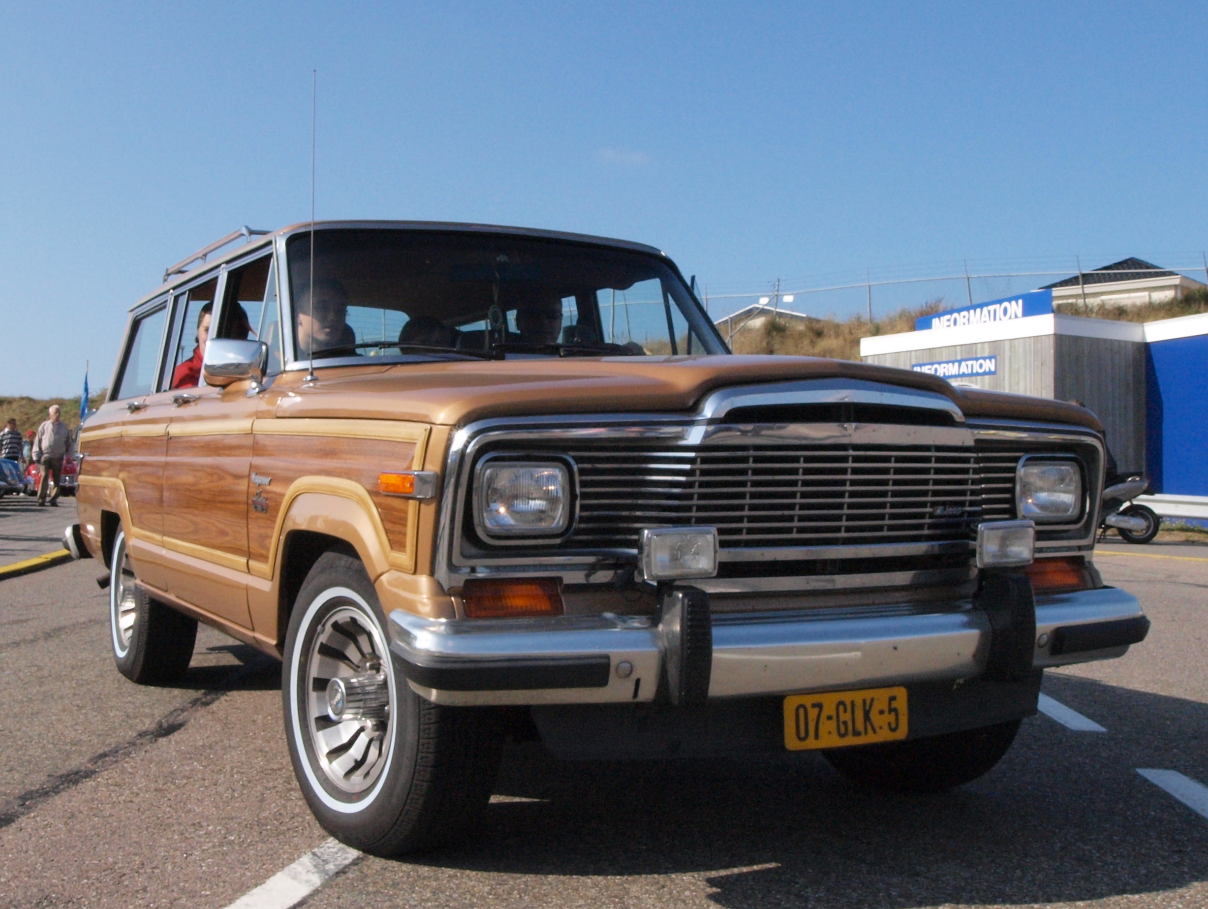 Photographed at the Nationaal Oldtimer Festival Zandvoort 2009, The Netherlands. OLYMPUS DIGITAL CAMERA